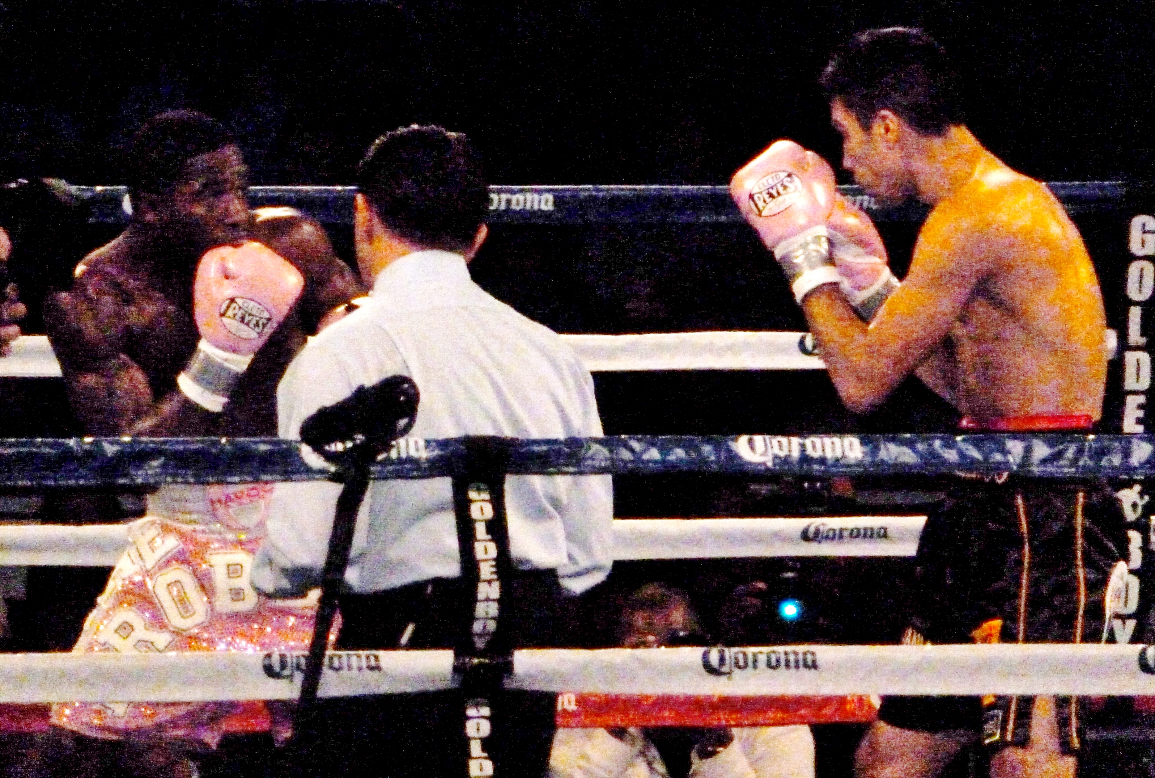 Adrien Broner (on the left) vs. Antonio DeMarco at the Boardwalk Hall, Atlantic City, New Jersey on November 17, 2012.